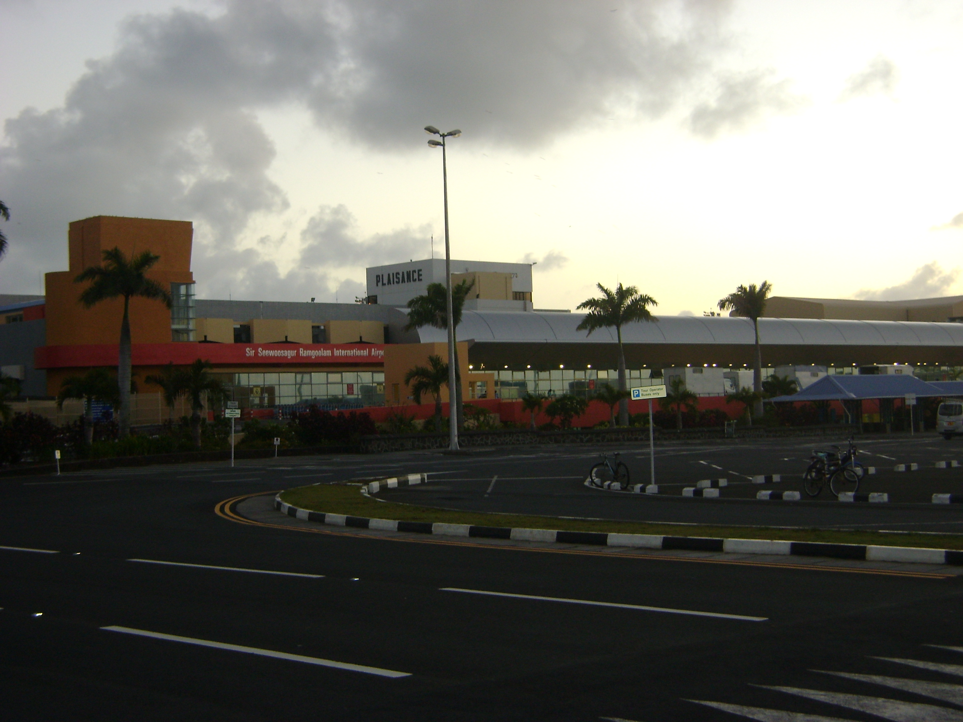 Sir Seewoosagur Ramgoolam International Airport